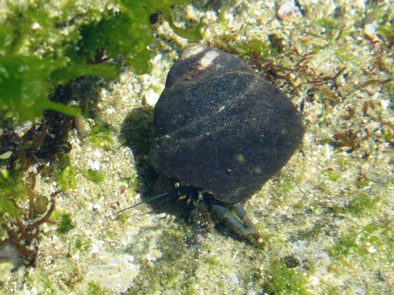 Clibanarius virescens (Krauss, 1843)